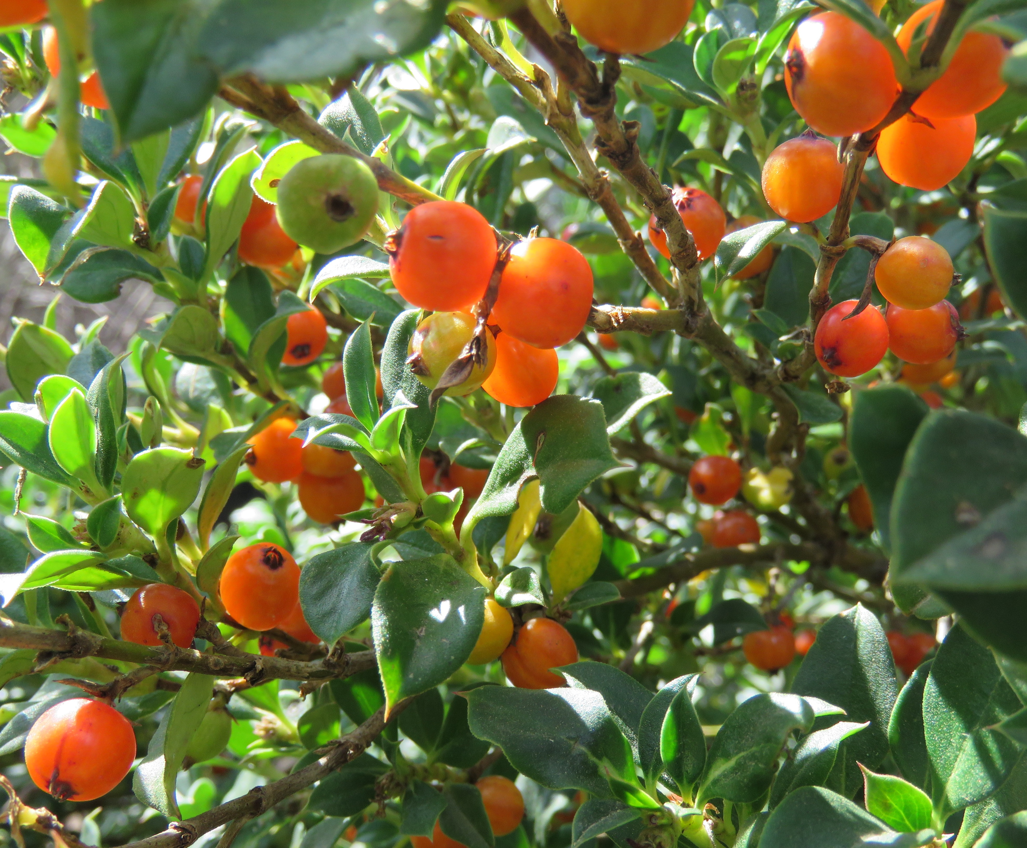 Coprosma hirtella, Marysville State Forest, Victoria, Australia